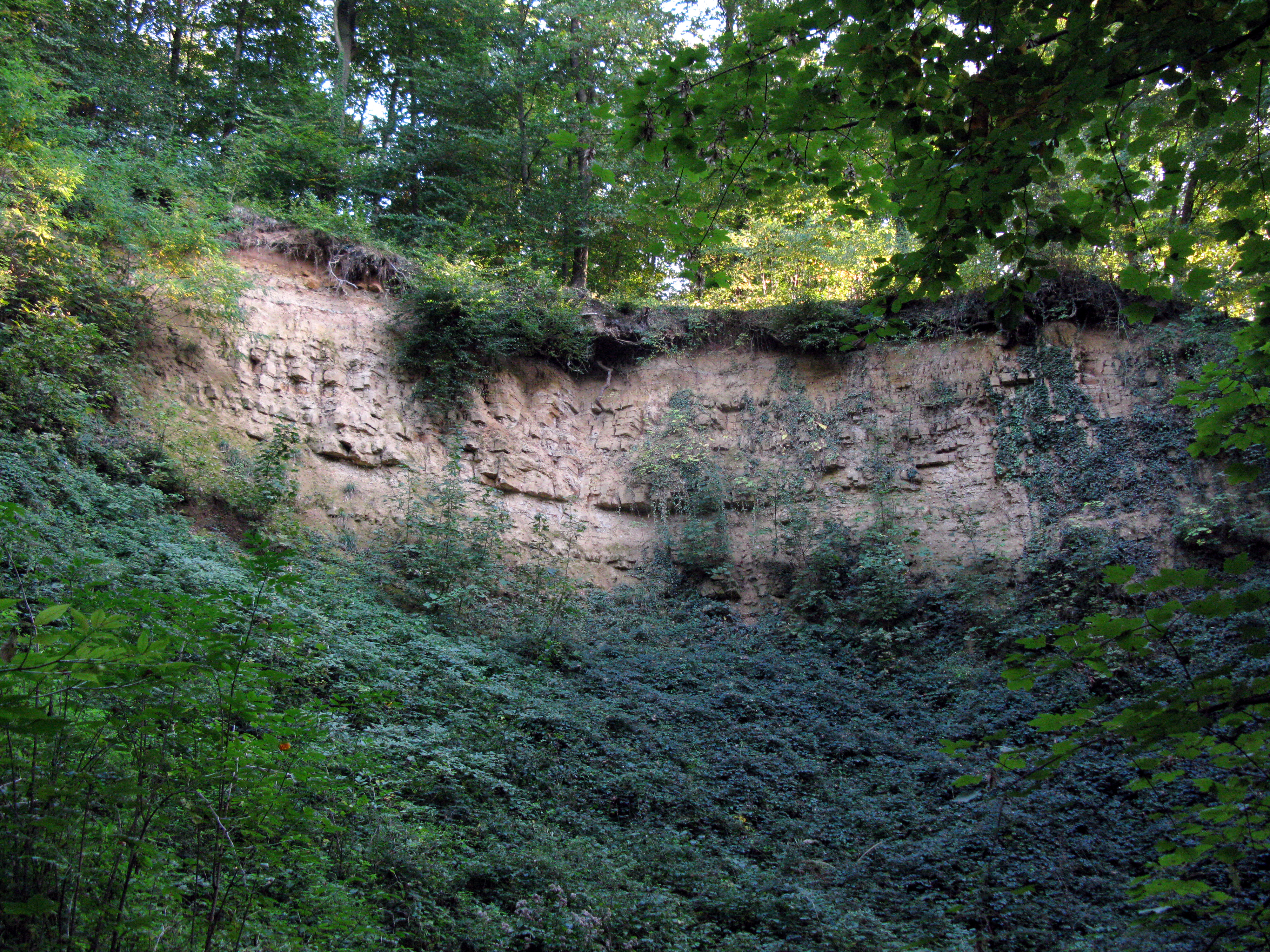 Pfaffenweiler, historical quarry